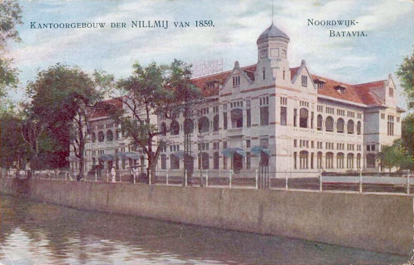 NILLMIJ building in Weltevreden, Batavia (now Jakarta)